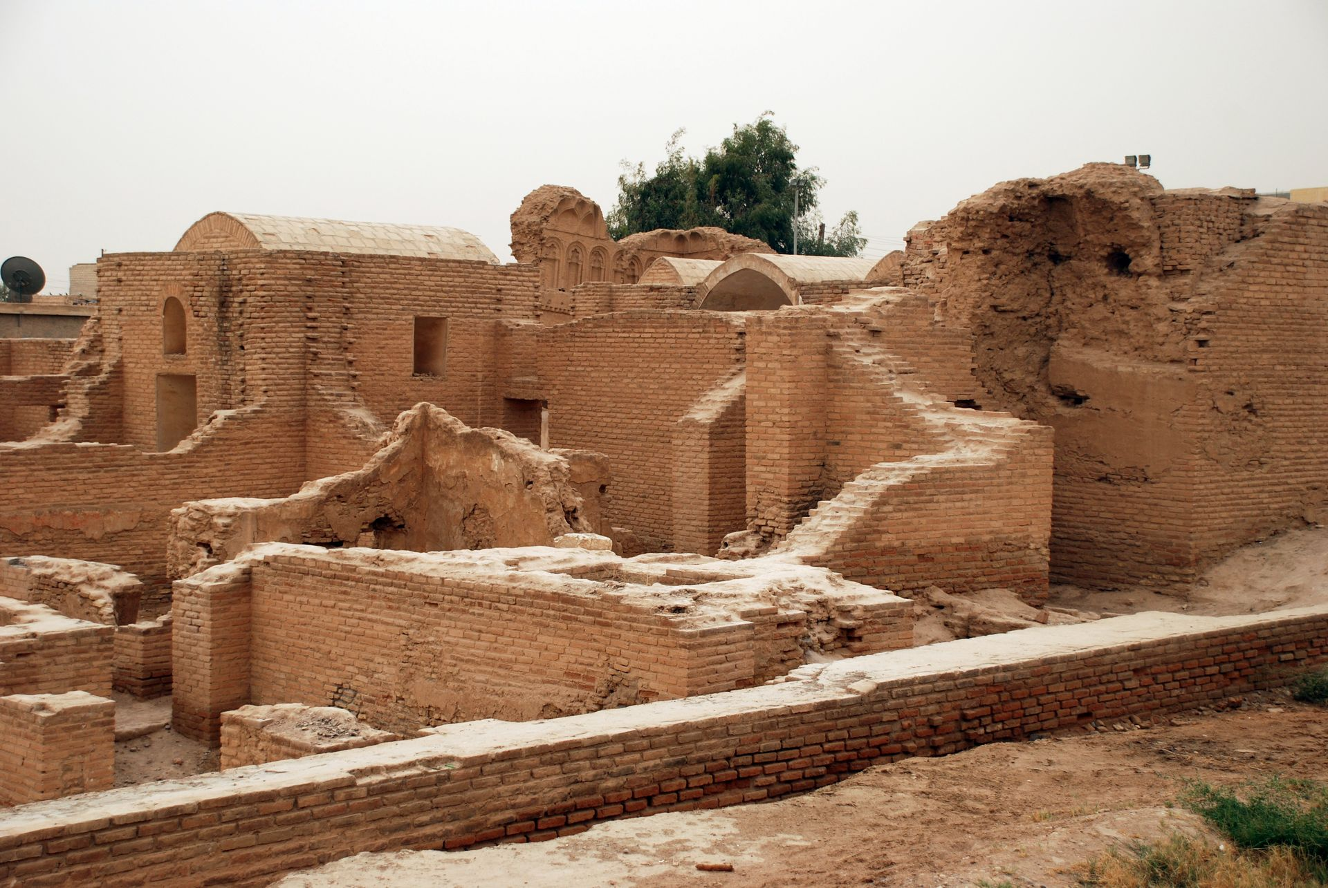 Raqqa,Syria, Qasr al-Banat from northwest